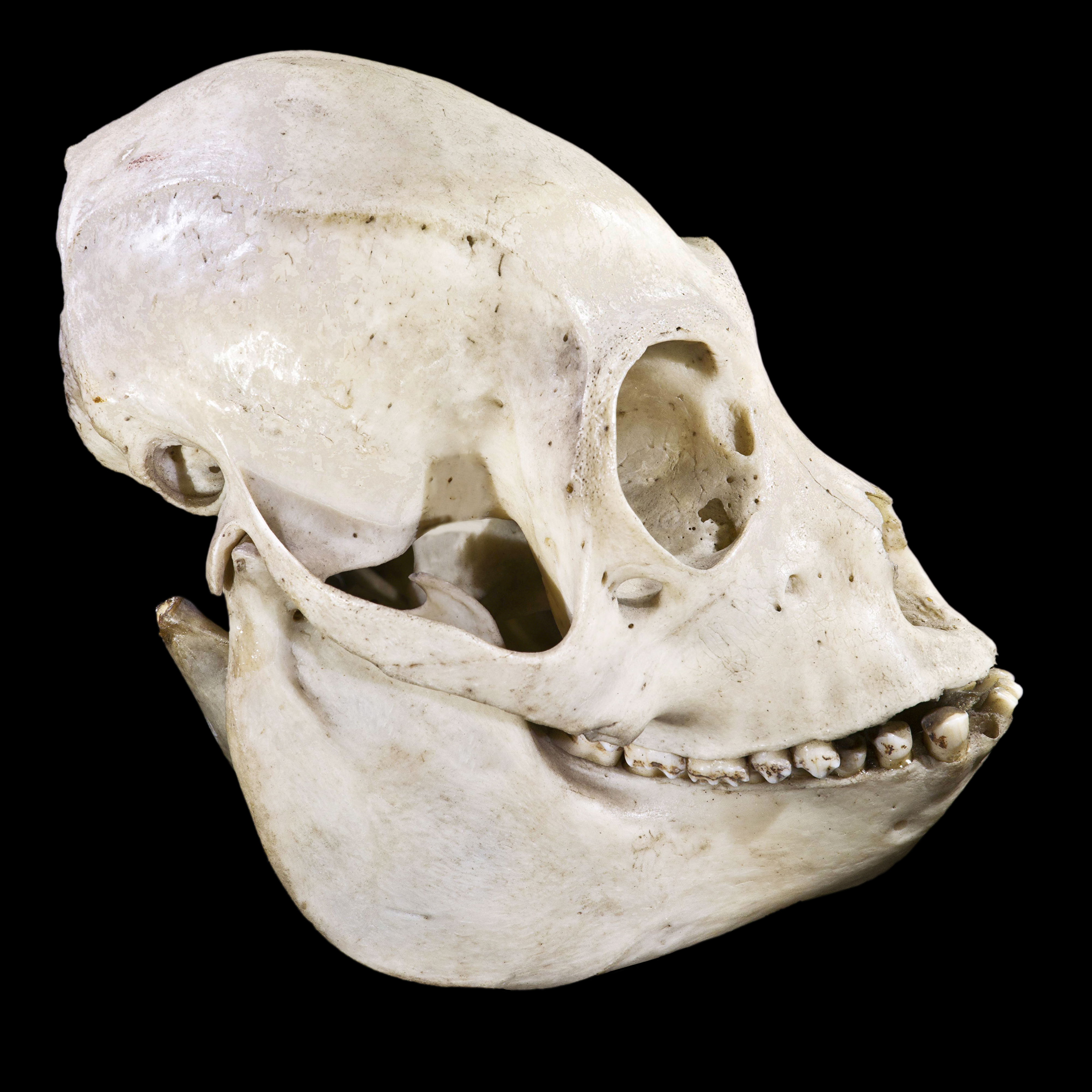 Red howler monkey Alouatta seniculus (Linnaeus 1766) (View profile) - French Guiana Size : 10 x 10 x 9.6cm